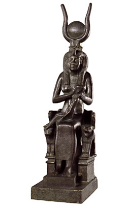 Bronze Statue of Isis on lion throne, Egyptian Late Period, 7th/6th centuries B.C.E. H 28 cm, W 7 cm, D 11.9 cm